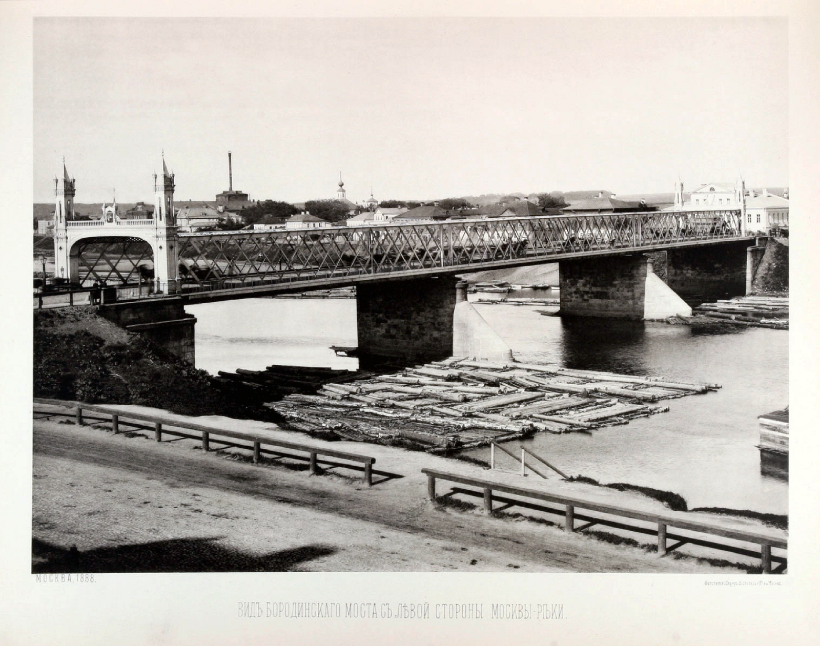 Plate 17: (old) Borodinsky bridge, Moscow.